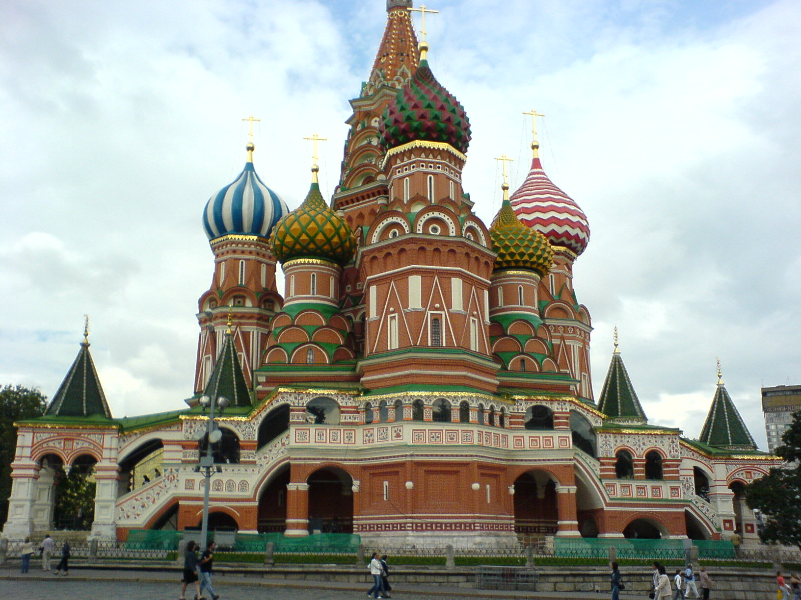 Moscow, Krasnaya Square, Intercession Cathedral (St. Basil's) as seen from the West